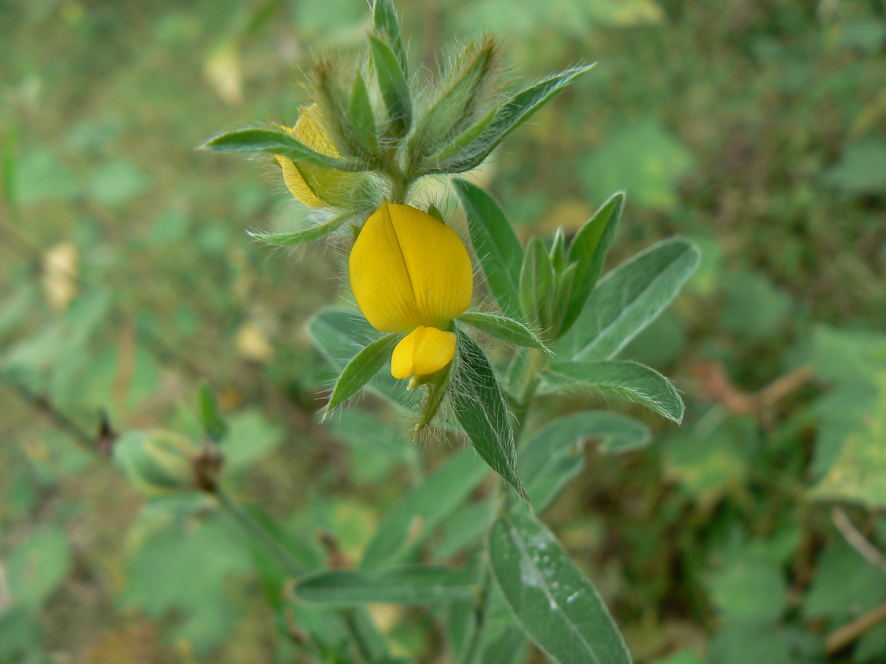 Fabaceae (pea, or legume family) » Crotalaria calycina kroh-tuh-LAR-ee-uh -- Greek krotalos; refers to sound, dried pods make when shaken ka-LEE-kin-uh -- having a persistent (or conspicuous) calyx commonly known as: common name in English not found, perhaps rattlepod, or hairy crotalaria • Marathi: केसाळ ताग kesal tag • Kannada: bekkina tharudu gida ... small erect annual ... about 15 cm ... may attain a metre's height ... hairy almost all over. References: Further Flowers of Sahyadri by Shrikant Ingalhalikar • eFlora